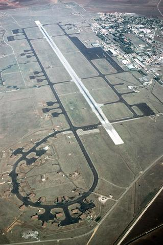 An aerial view of the airfield at Incirlik Air Base, one of two bases to which the 401st Tactical Fighter Wing deploys its forces during a time of conflict.